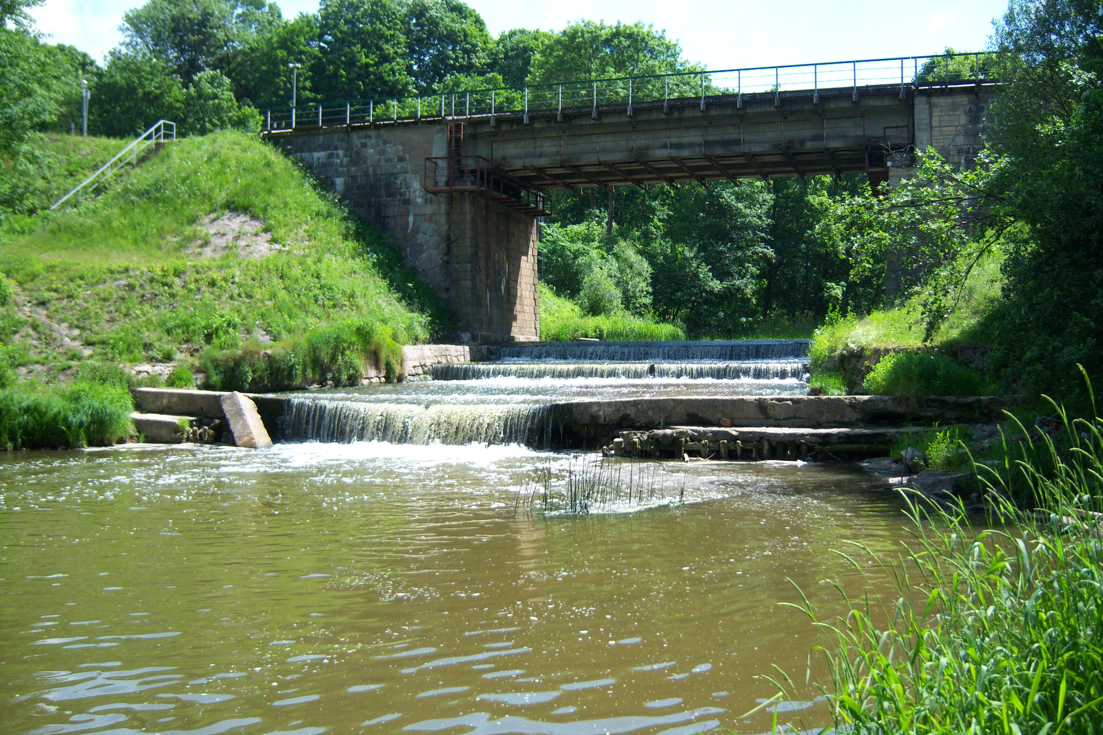 Railway bridge (3rd downstream) on Jiesia River, next to Jiesia train stop, Kaunas district, Lithuania